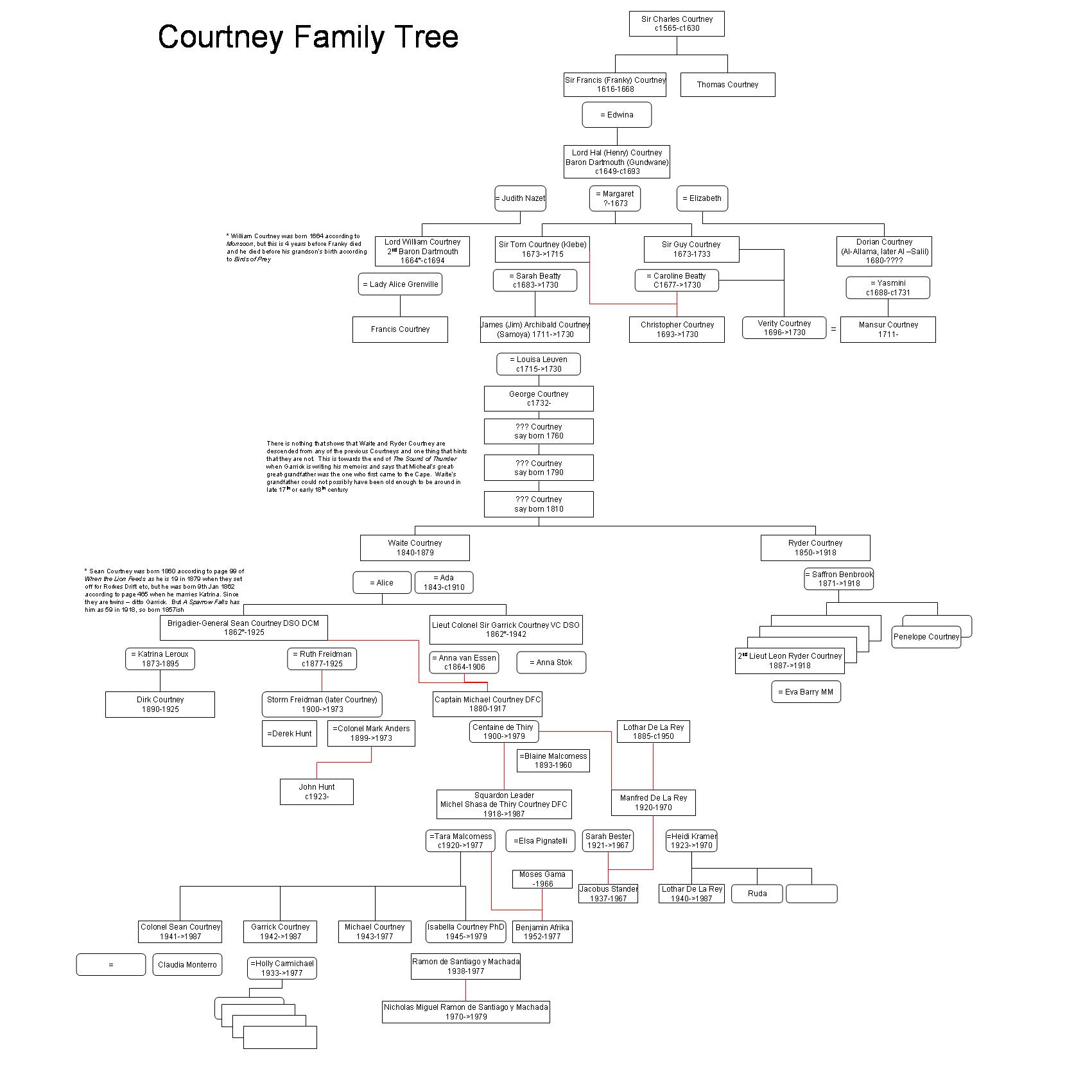 Family tree of the fictional Courtney family as written in the Wilbur Smith books